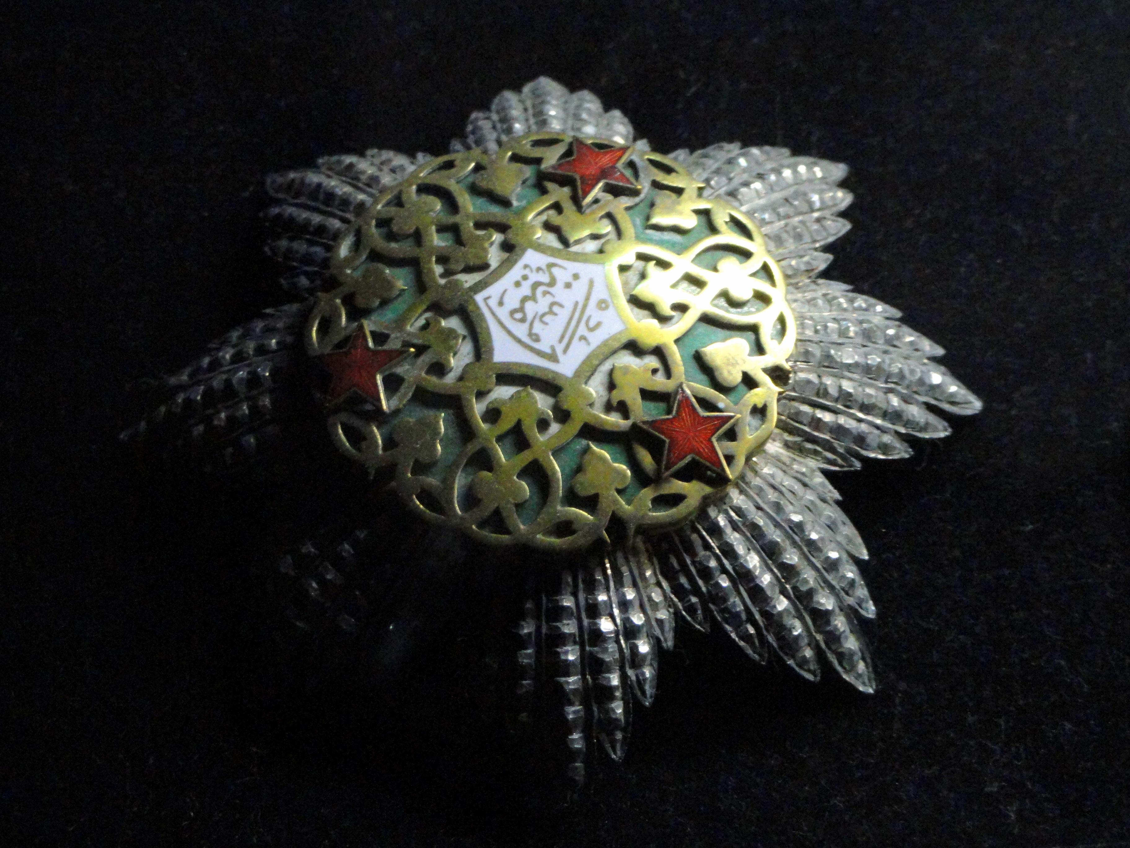 Syrian Order of Umayyad – IExhibit in the Memorial JK, Brasília, Brazil.